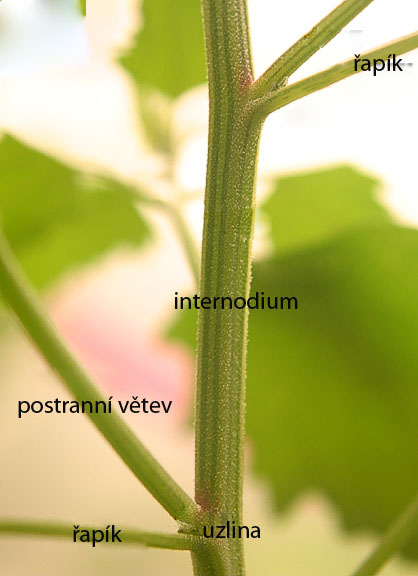 czech version of "Stem_nodes.jpg" from the English Wikipedia